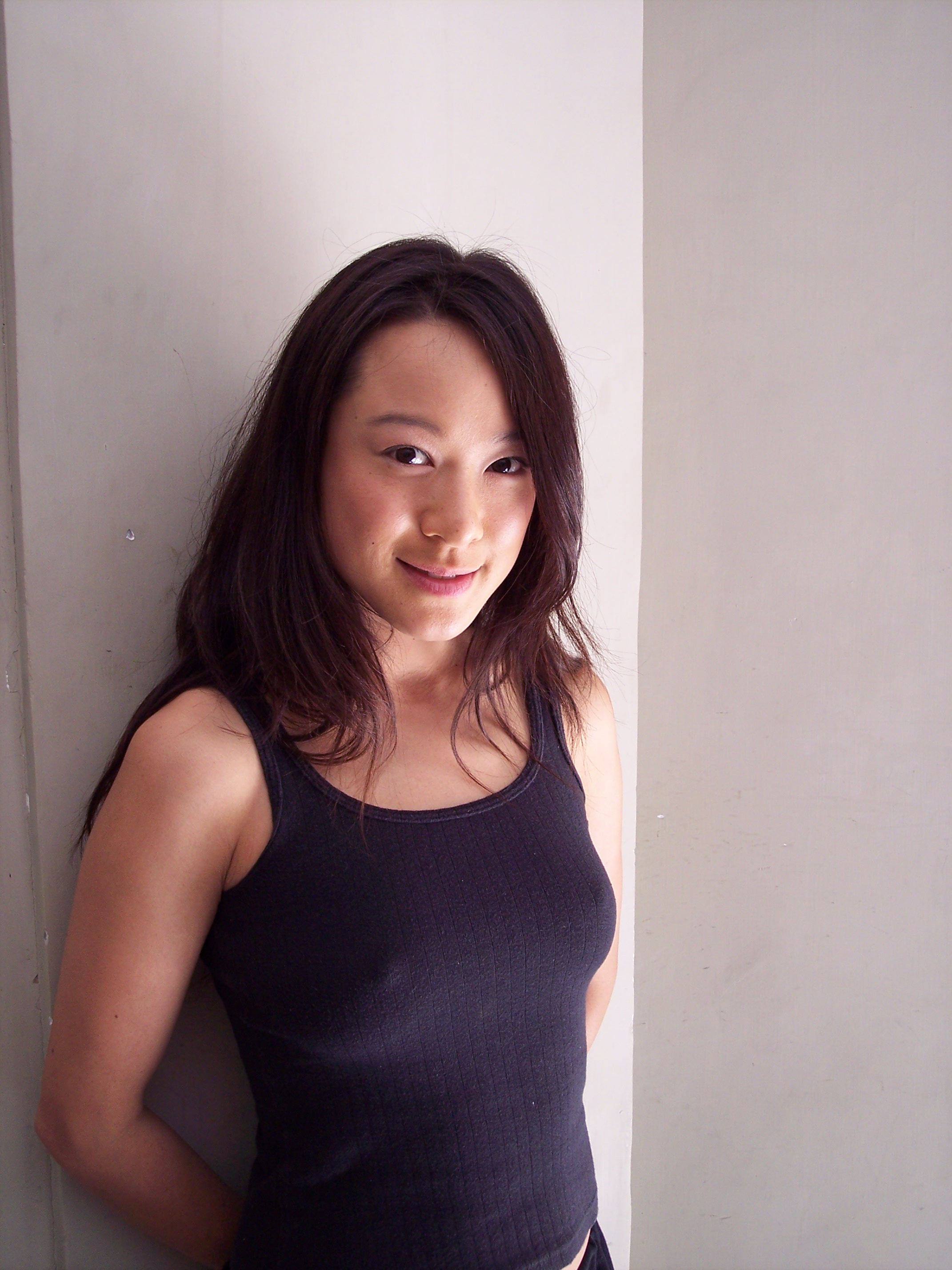 Nina Liu star of "The Power" in Beijing